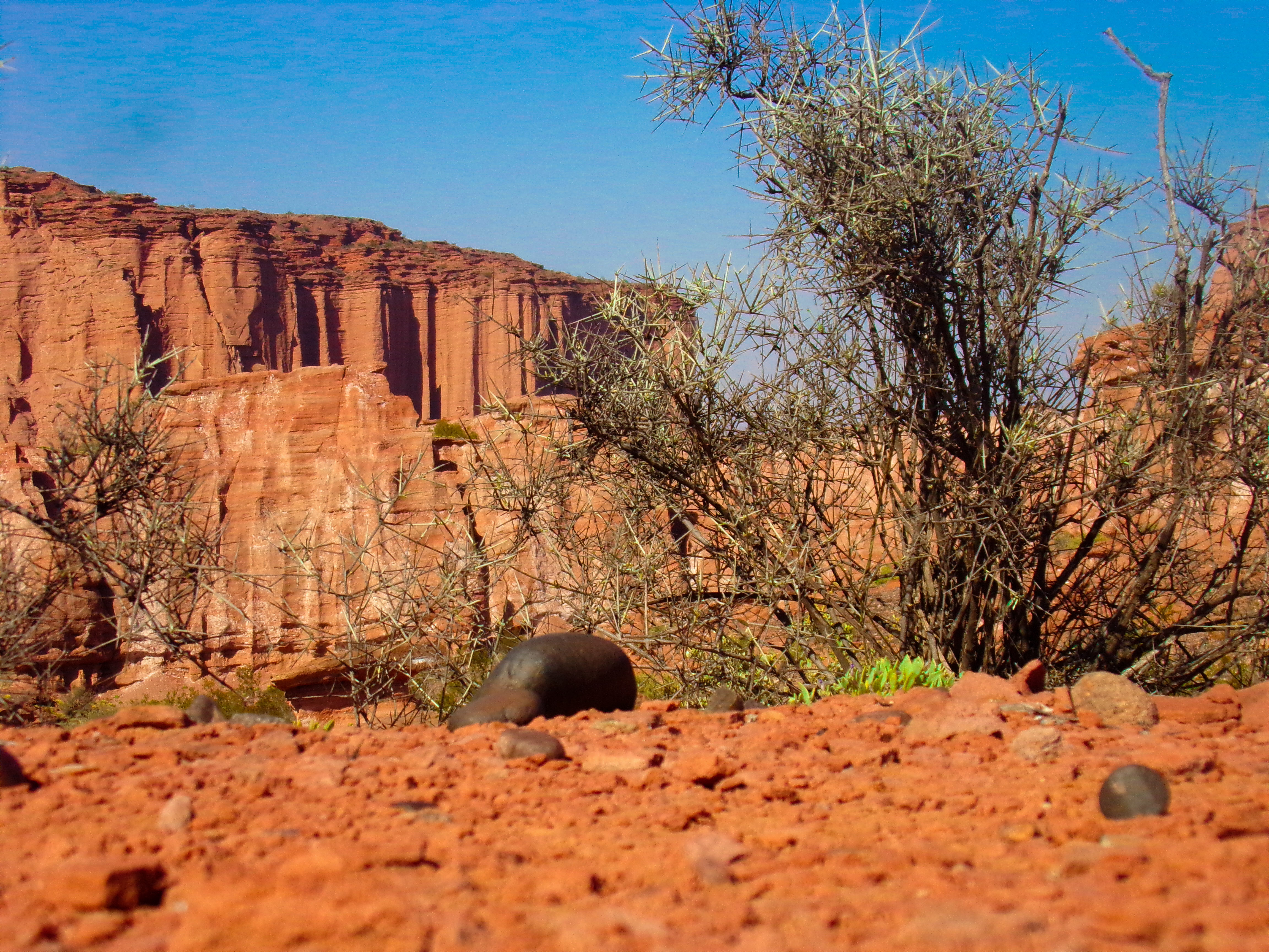 Esta imagen fue tomada en el Parque Nacional Talampaya, en la localidad de villa unión. En la misma se puede observar una formación natural geológica erosionada por el viento y el agua dando diversas formas como lo son las paredes del cañón que se observa en la misma, a su vez podemos encontrar una flora llamativa tanto en colores como en especies, al igual que su suelo colorado. Junto a esto acompaña una gran amplitud de formaciones rocosas.